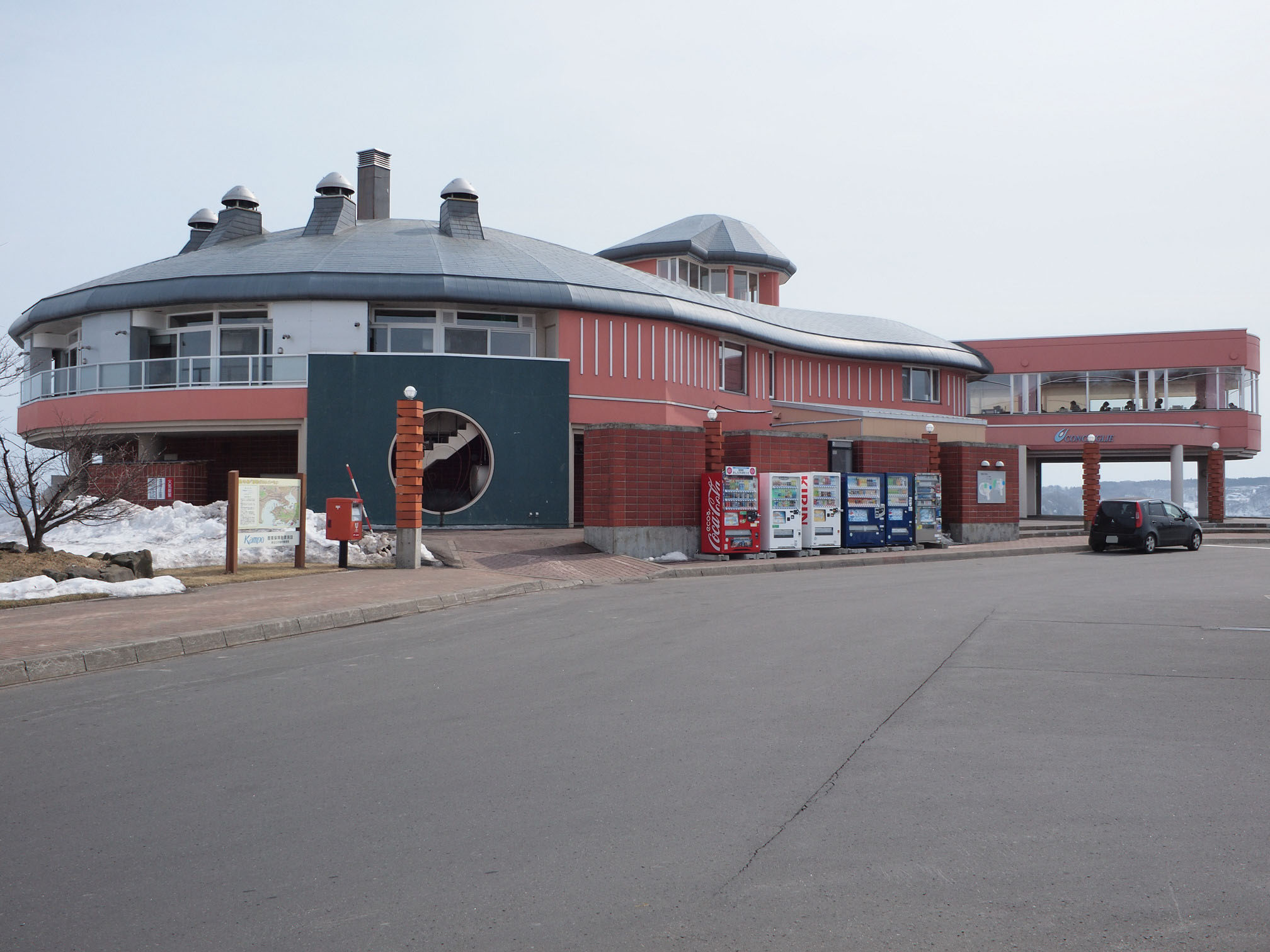 Michinoeki Akkeshi Gourmet Park in Akkeshi Town, Hokkaido, Japan